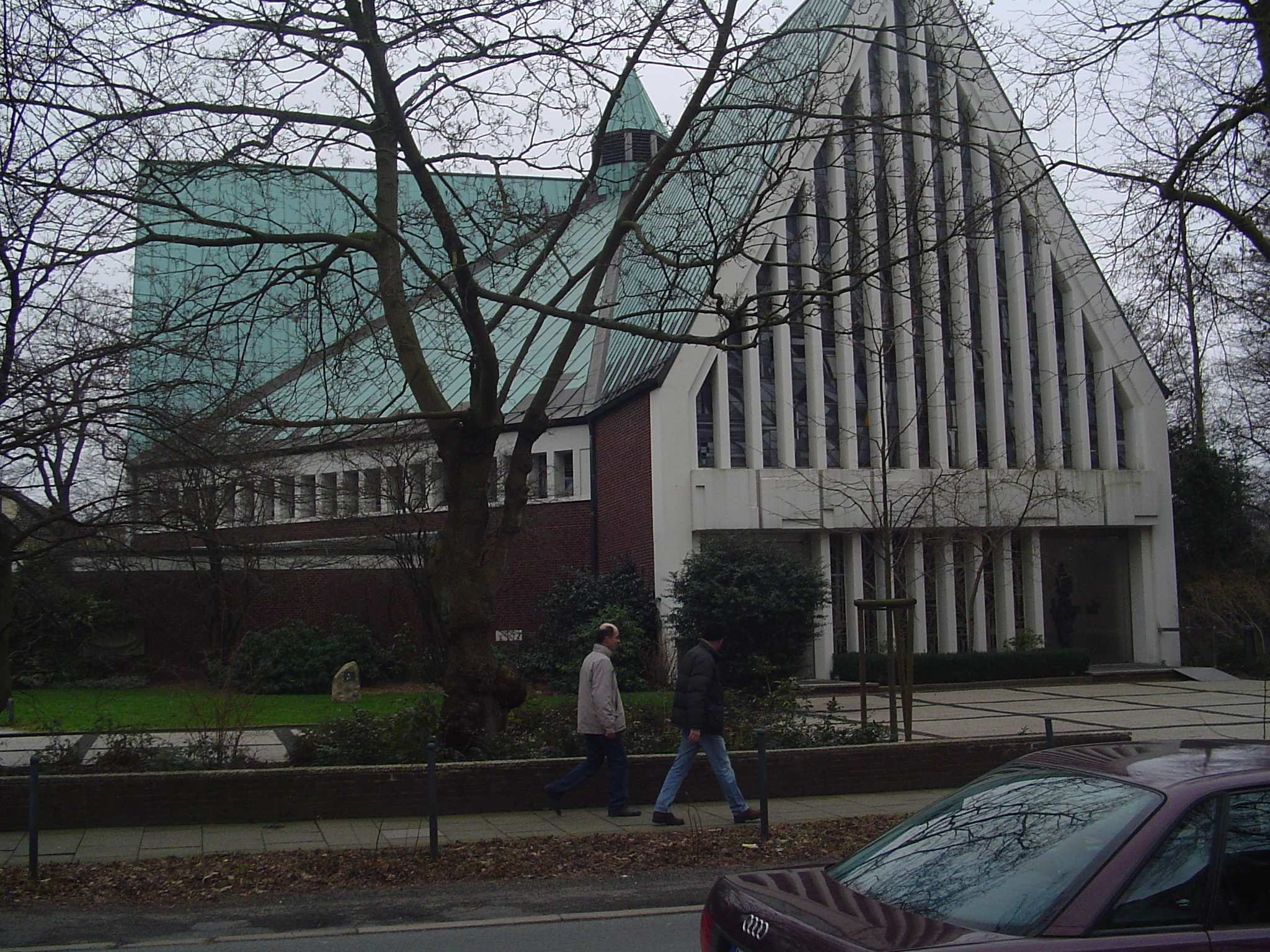 catholic St. Ursula Church in Bremen-Schwachhausen, Germany. Shot from West